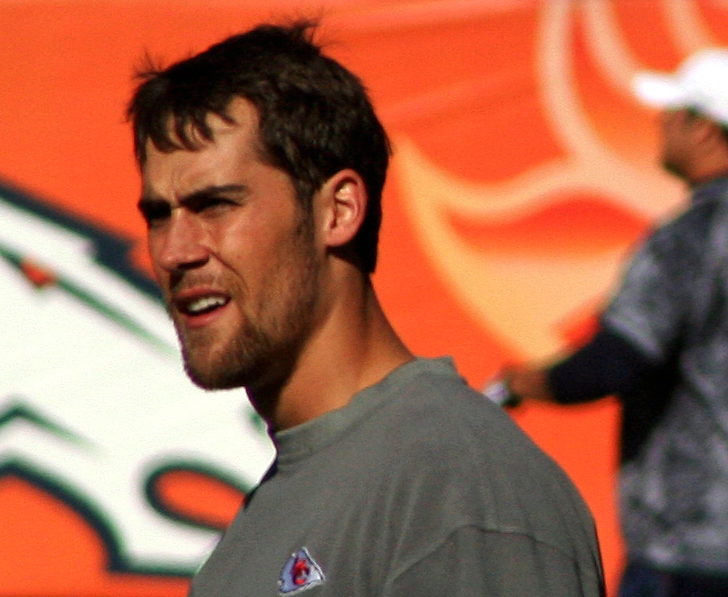 Matt Cassel close-up